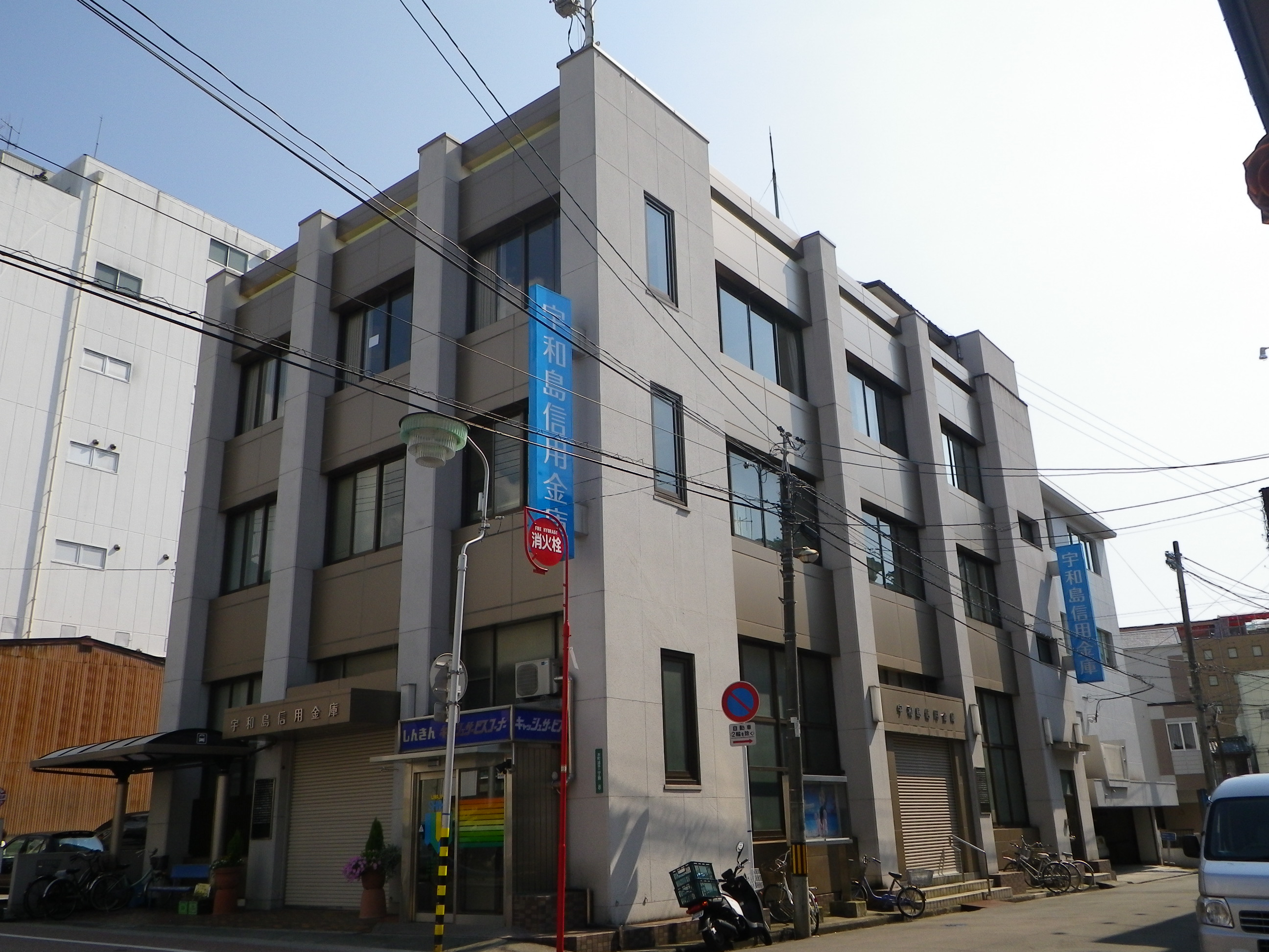 Uwajima shinyokinko bank